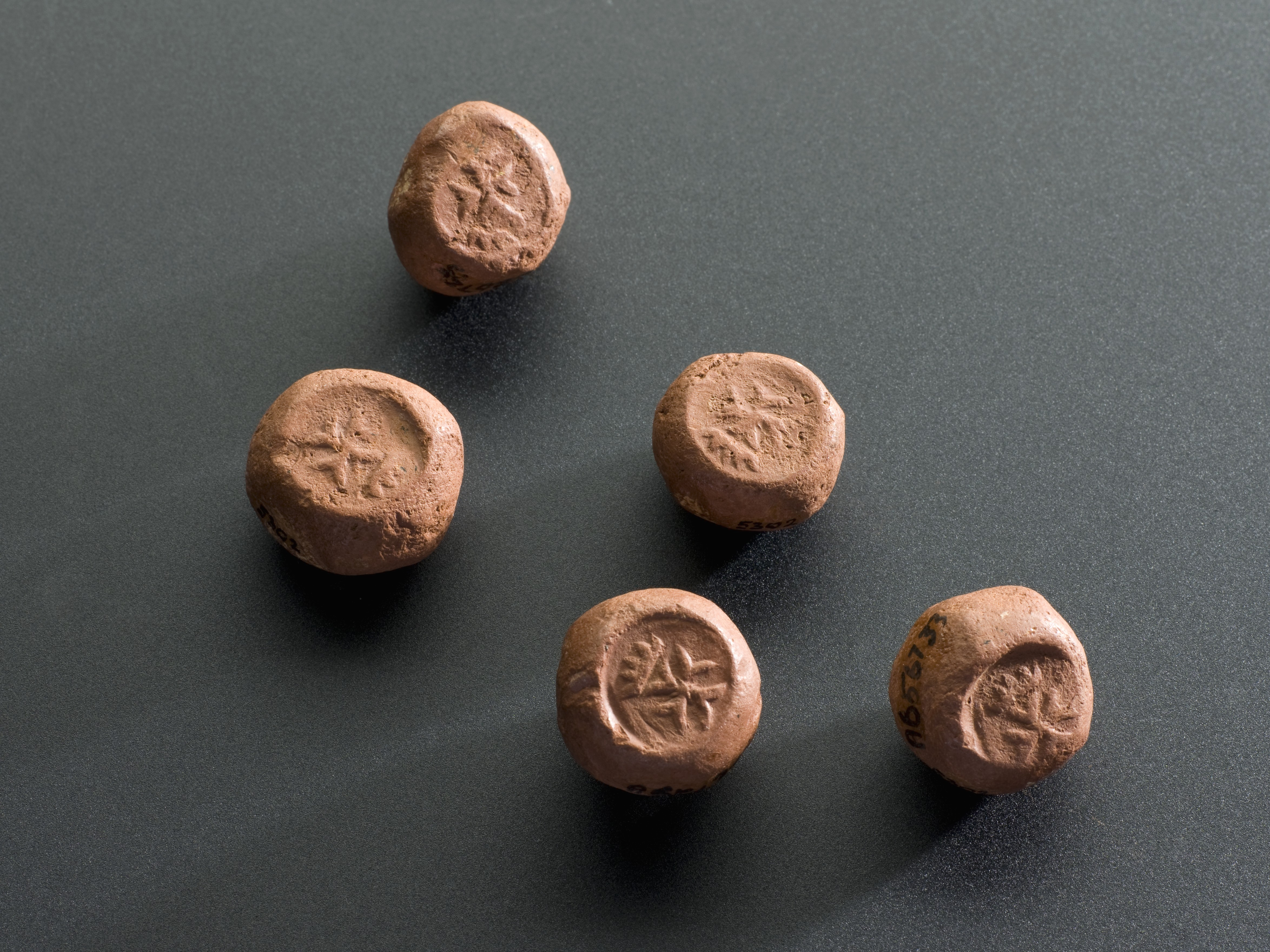 How would you react if your doctor told you to swallow clay, or rub it onto your skin? For centuries, this is exactly what physicians recommended for a wide variety of medical complaints. In ancient Greece, clay was pressed into large tablets and distributed by local priests. But it wasn’t any old clay – it was a special type found on the islands of Lemnos, Melos and Samos, and was reputed to have therapeutic properties. How could they prove the clay’s place of origin? Distinctive seals were stamped into the tablets, giving rise to its name ‘terra sigillata’ – Latin for ‘sealed earth’. Why was it so popular? It could be used to treat a broad range of illnesses and ailments, from poisoning to skin diseases. It also had celebrity endorsement – or at least a Greco-Roman type of celebrity – the famed physician, Galen. His books were translated into Arabic and Latin, and used until the 1500s, ensuring the remedy’s popularity for many hundreds of years. Did it work? Modern analysis of terra sigillata has found that it contained silica (or sand), aluminium oxide, chalk, magnesia and iron oxide – much the same as today’s indigestion and heartburn remedies. Probably tasted just as bad too. maker: Unknown maker Place made: Europe Wellcome Images Keywords: Epidemics; Plague; terra sigillata; epidemic